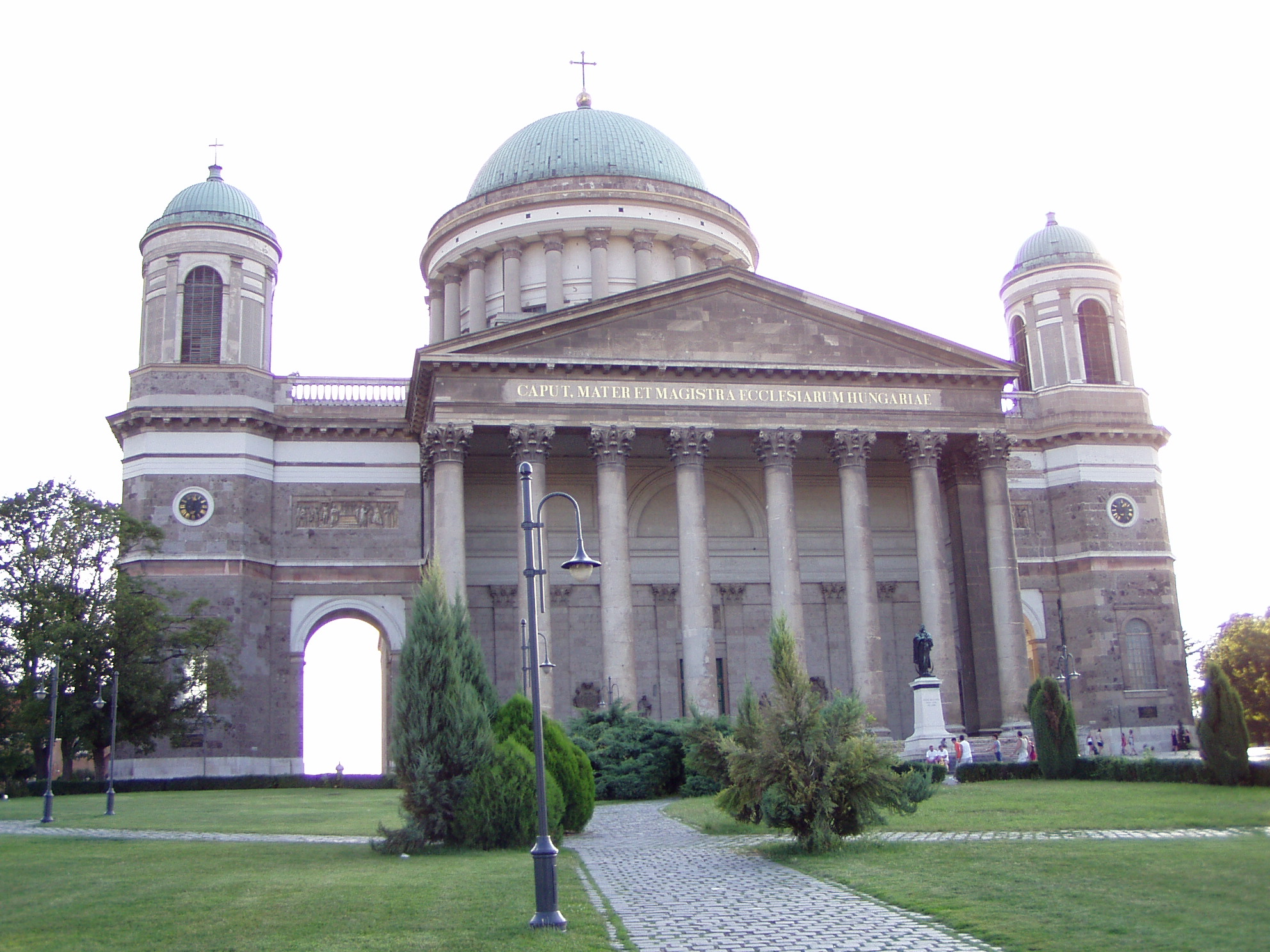 Basilica in Esztergom